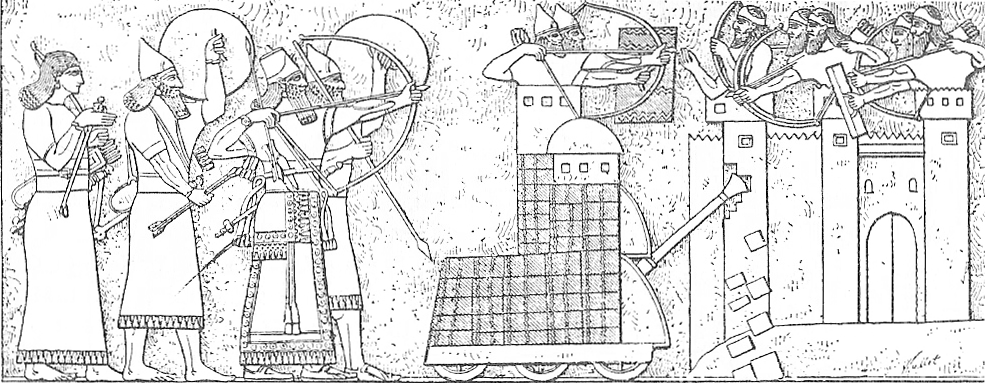 Assyian army besiedge a fortress. Drawing of relief from the North-West Palace at Nimrud; now in the British Museum.